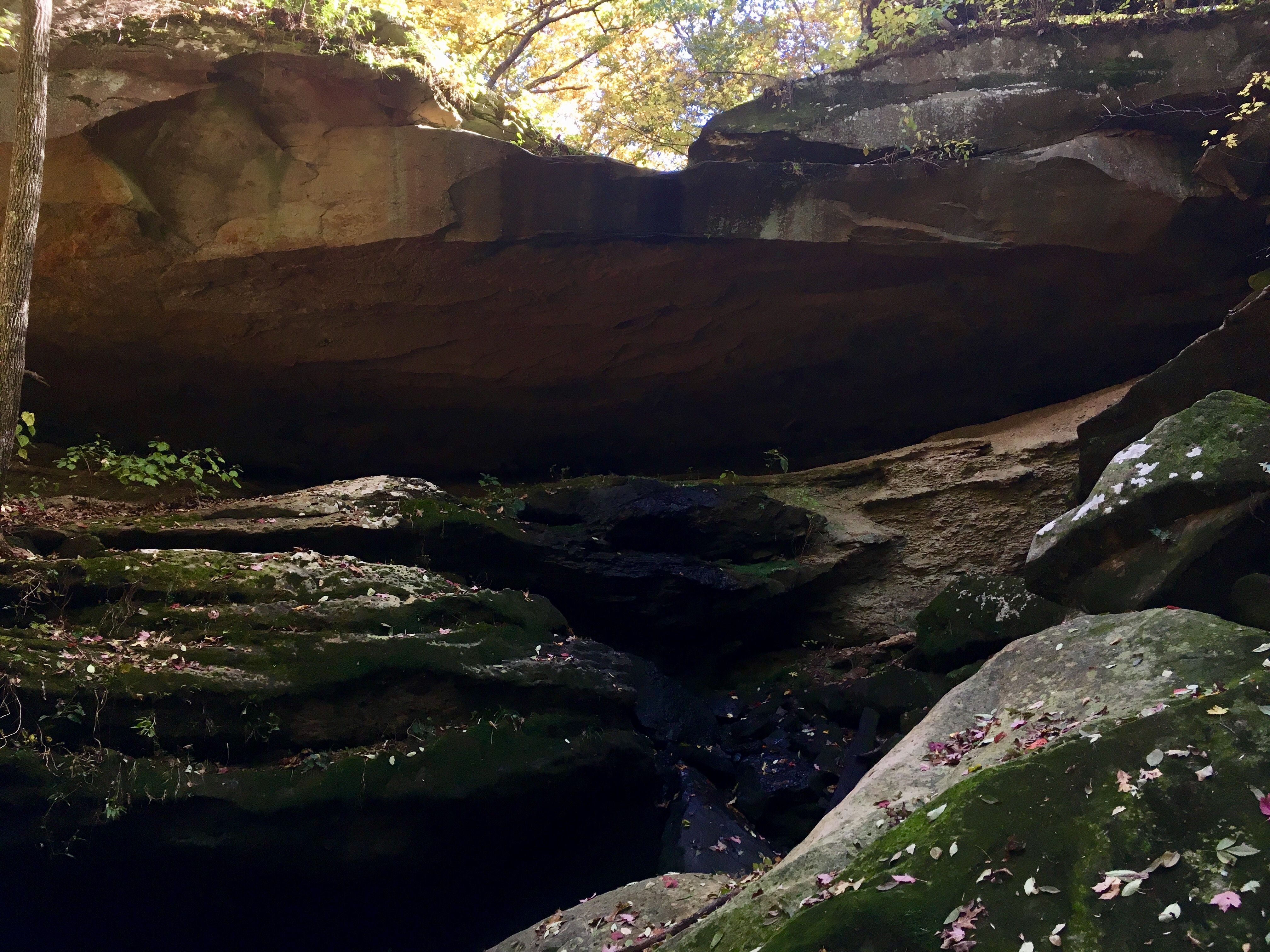 A dry waterfall at the beginning of the Ravine